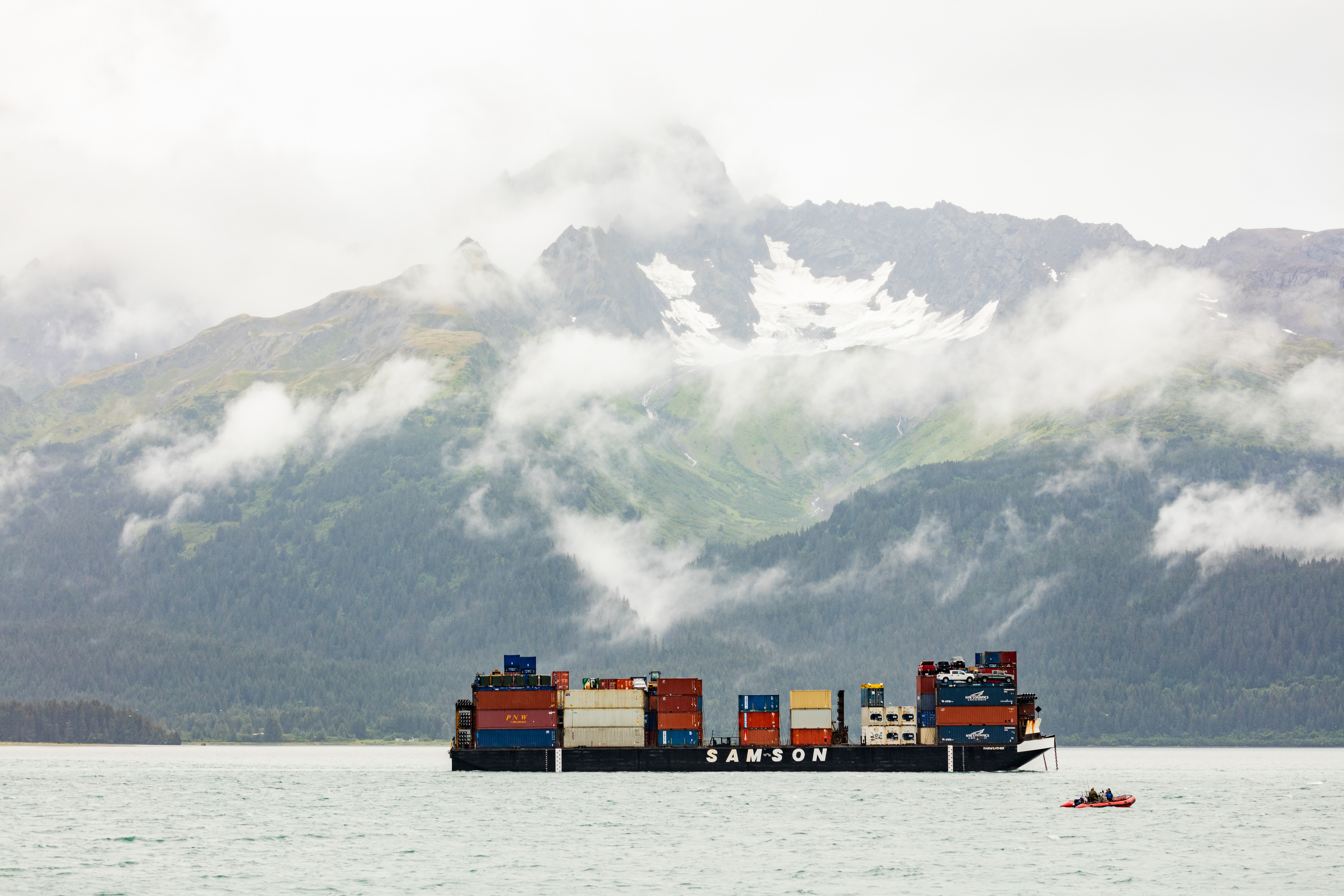 Fairweather vessel, Seward, Alaska, United States